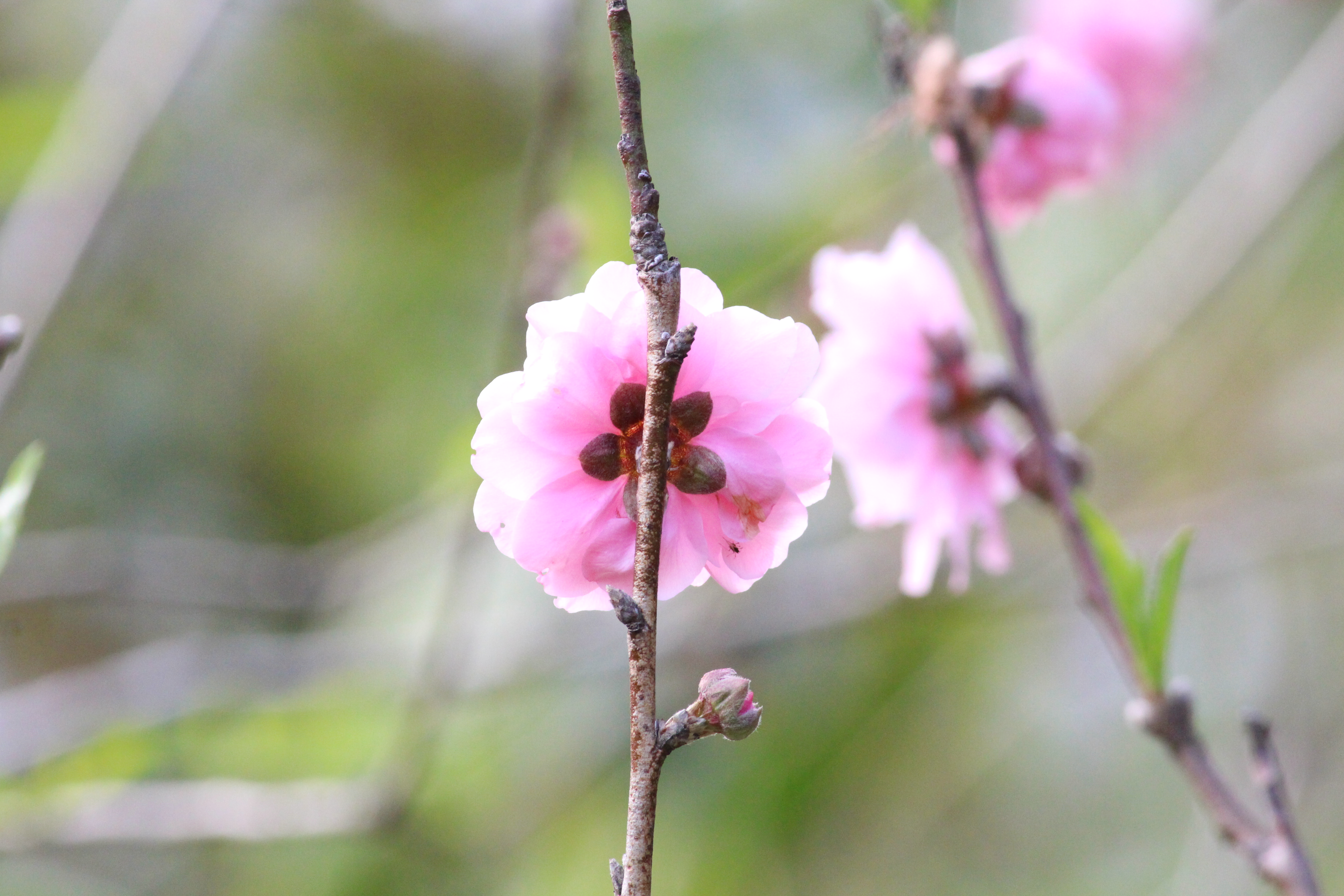 Cherry blossoms, near Yangmingshan National Park in Taiwan